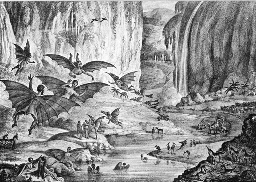 Rough image of the lithograph of the "ruby amphitheater" described in The Sun (New York City) newspaper (August 28, 1835): Our plain was of course immediately covered with the ruby front of this mighty amphitheater, its tall figures, leaping cascades, and rugged caverns. As its almost interminable sweep was measured off on the canvass, we frequently saw long lines of some yellow metal hanging from the crevices of the horizontal strata in will net-work, or straight pendant branches. We of course concluded that this was virgin gold, and we had no assay-master to prove to the contrary.